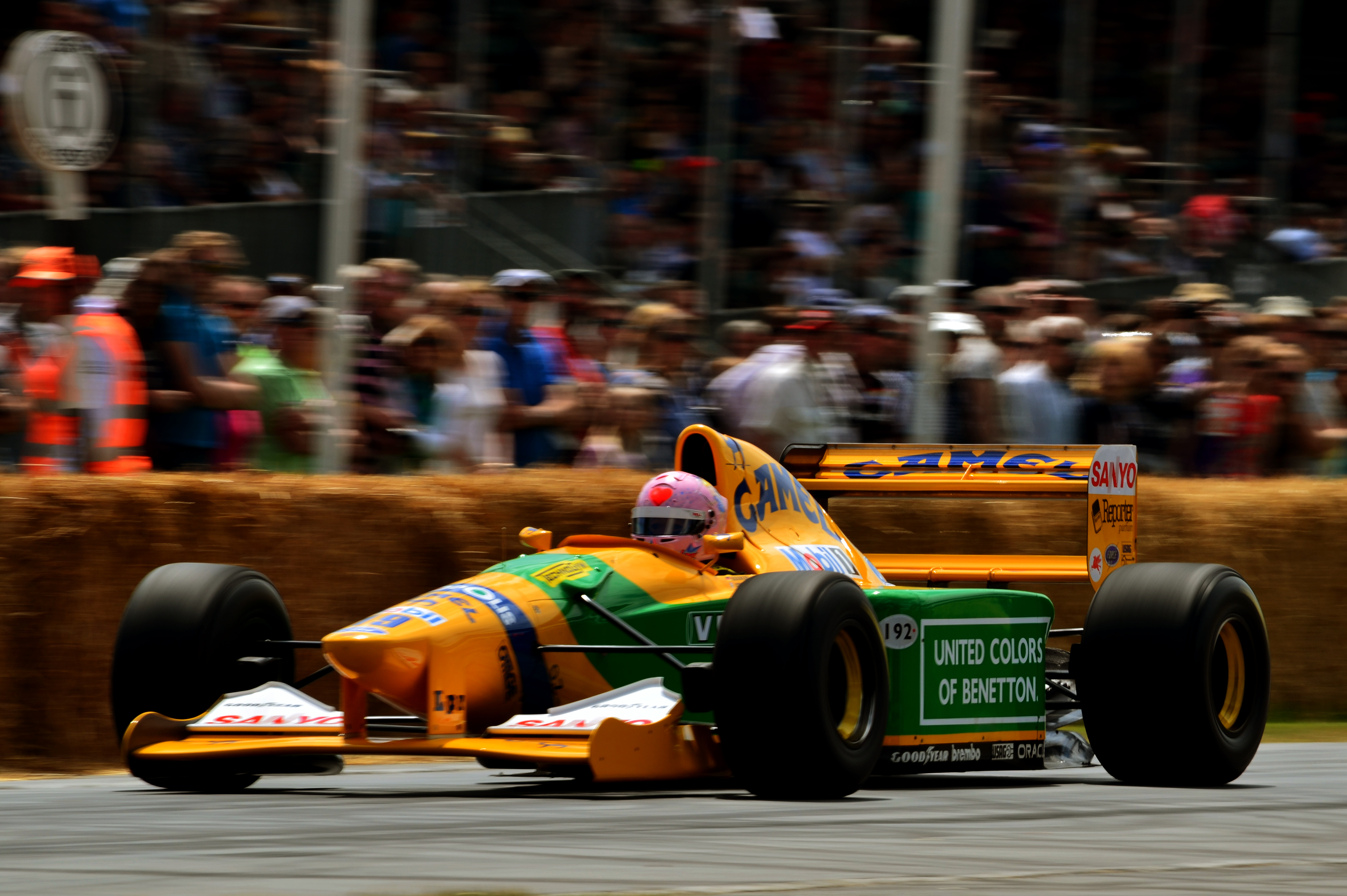 Michael Schumacher's 1992 Benetton B192 F1 car at the 2014 Goodwood Festival of Speed.